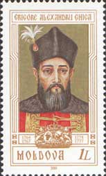 Stamp of Moldova